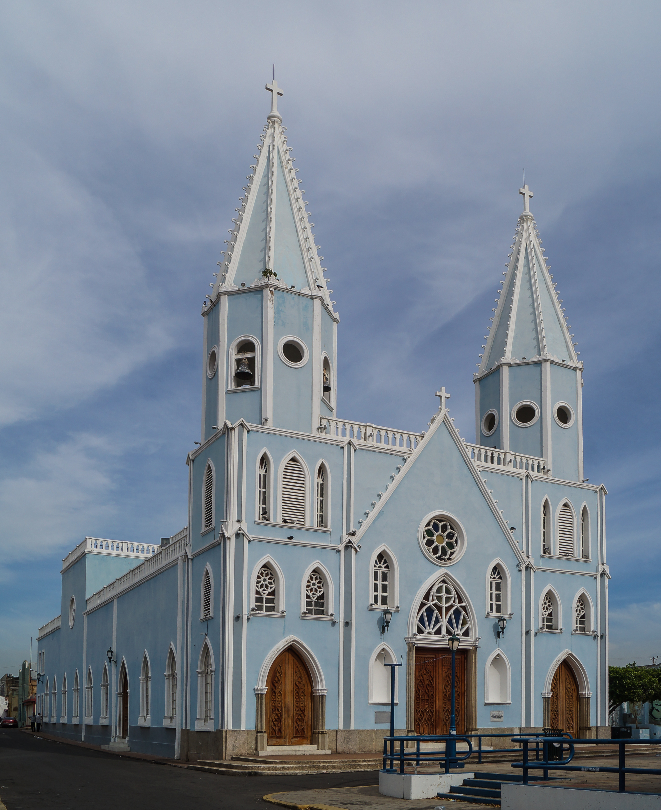 was lifted on July 14, 1867 when was president George Sutherland Zulia state. It was remodeled in 1936 and in 1975. Internally the church has three aisles, one central and two latera. Maracaibo